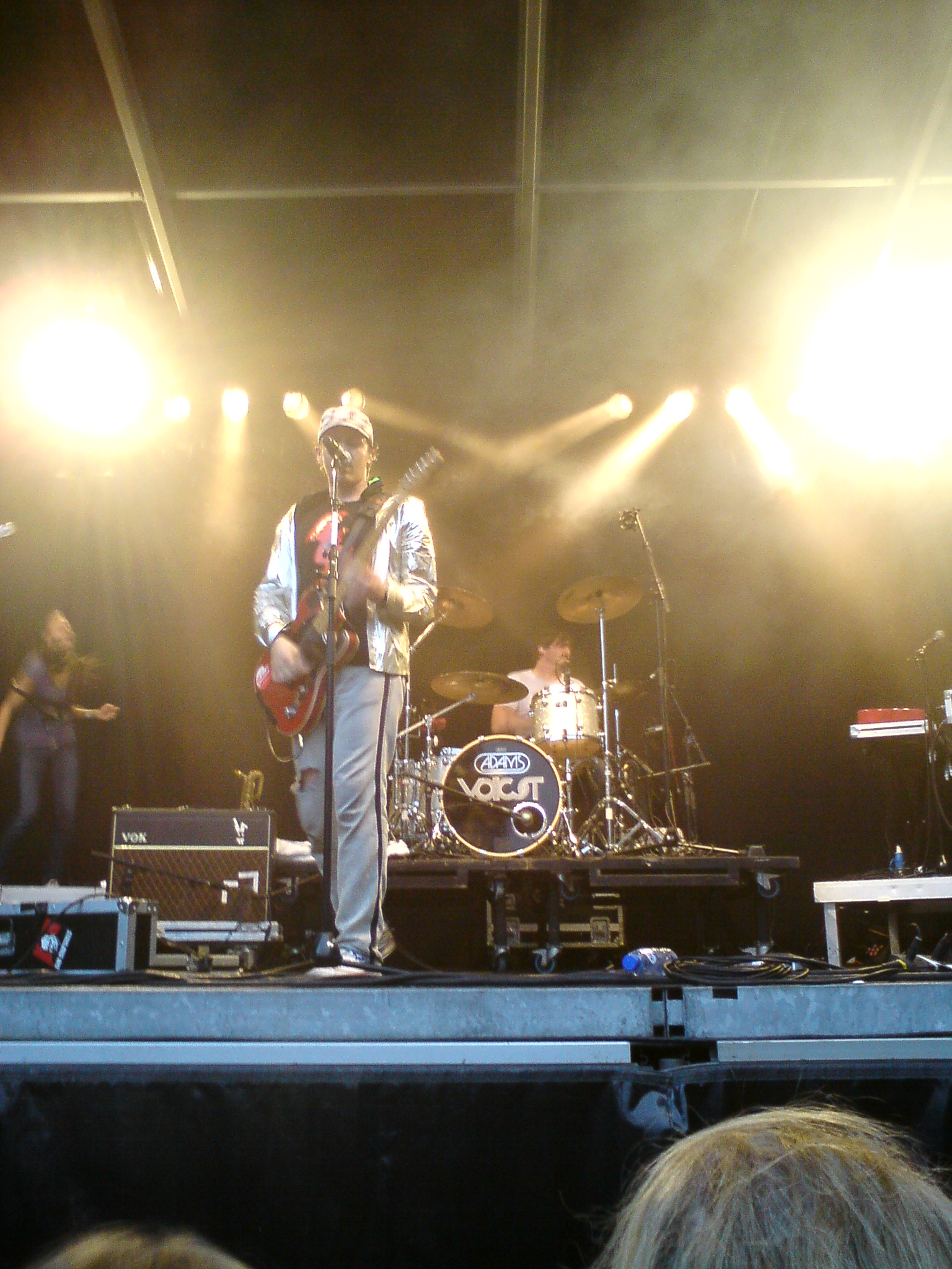 Tjeerd Bomhof, singer of the Dutch rockband Voicst, live at Werfpop, Leiden, The Netherlands. 12 July 2009